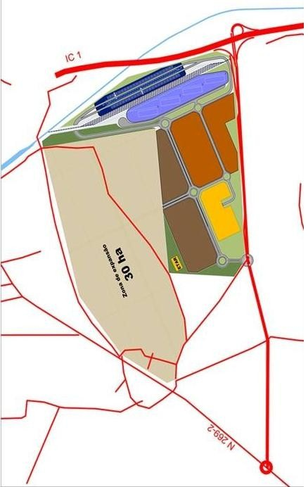 plataforma